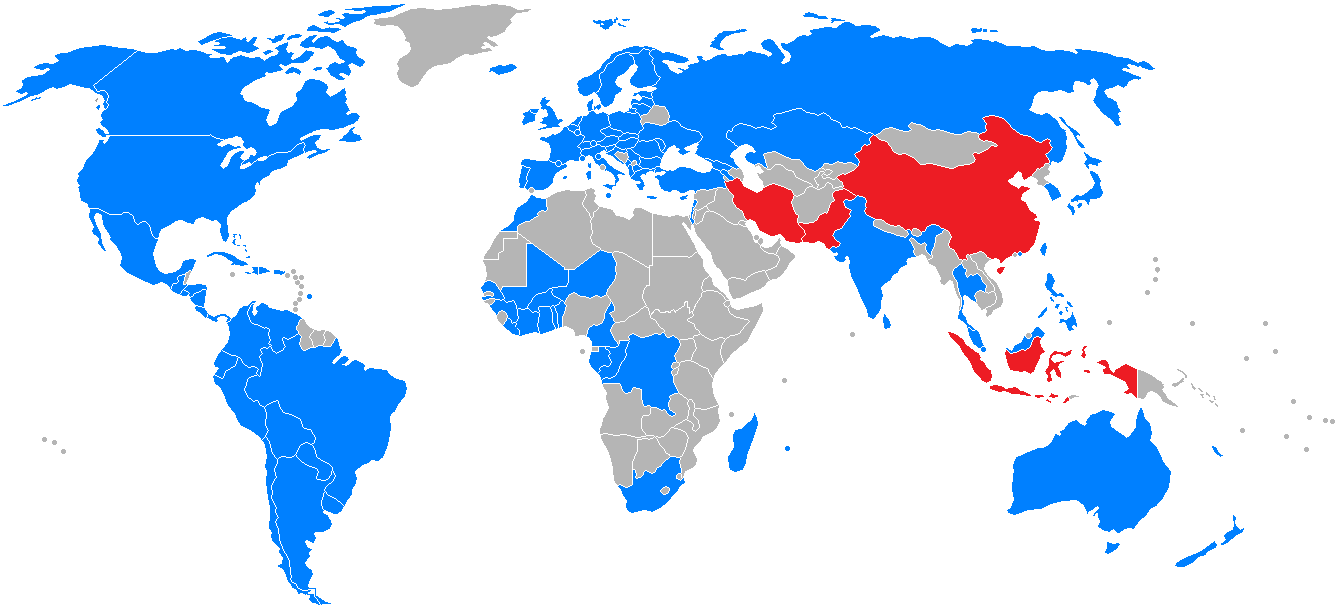 Masonic lodges over the world.